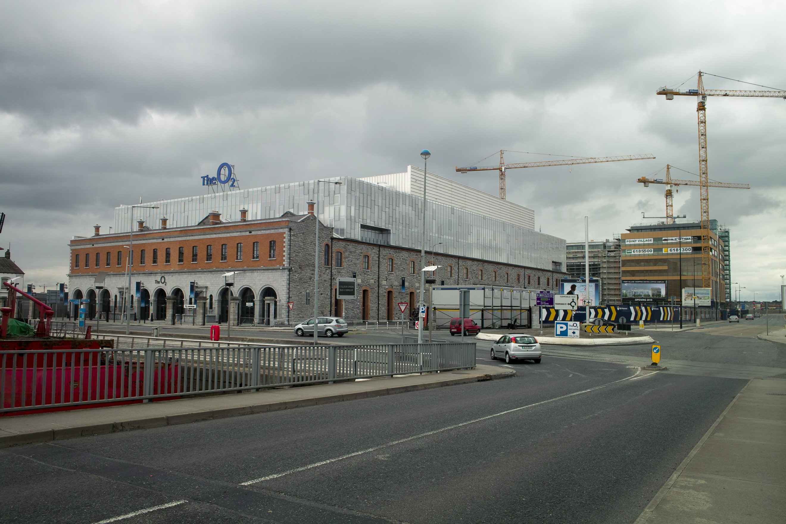 The O2 (visually typeset in branding as "The O2") is a concert and events venue in Ireland, which opened on 16 December 2008. It is located at North Wall Quay, Dublin 1, Ireland by the River Liffey, in the Dublin Docklands.